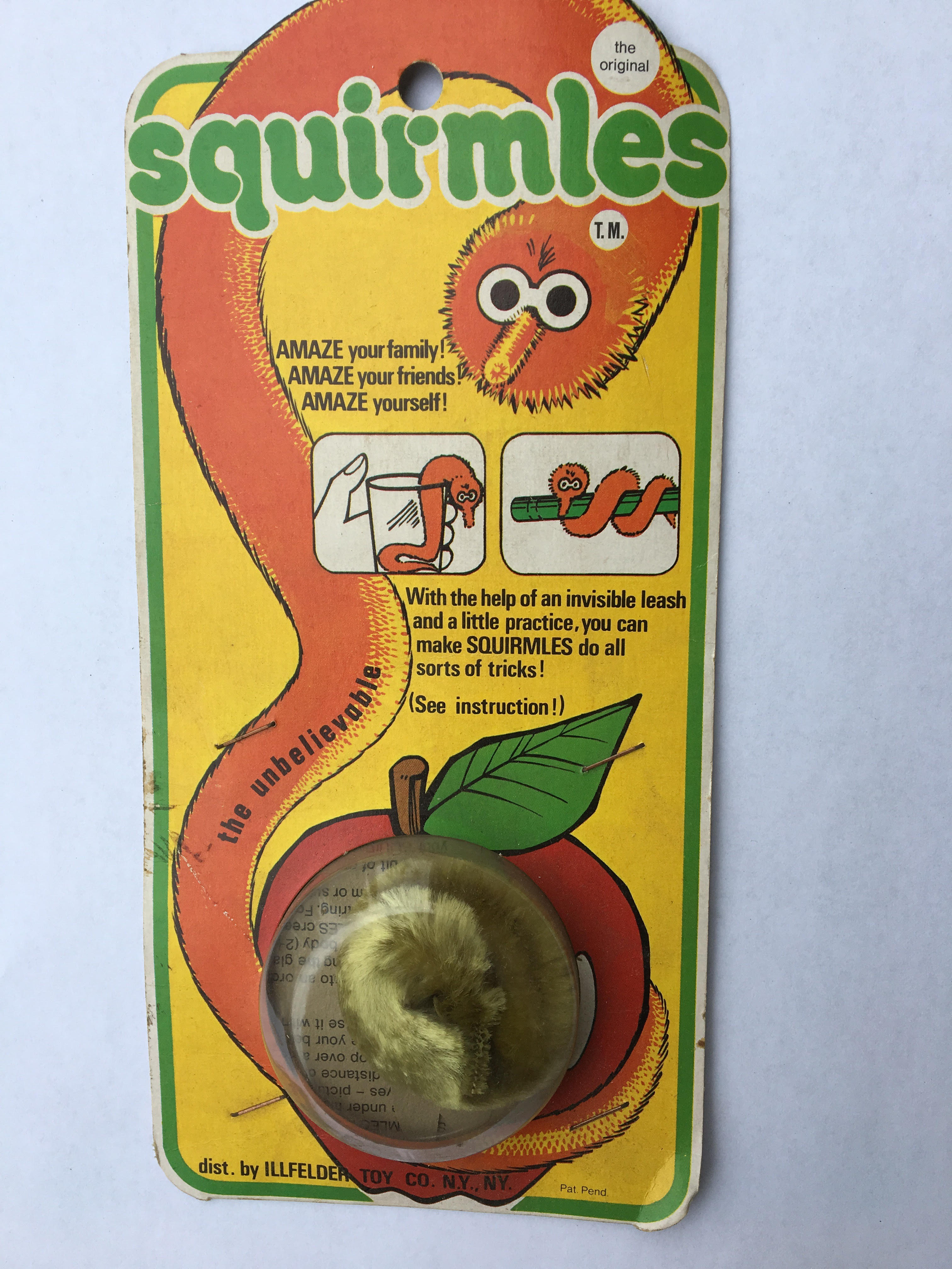 Original 1970's Squirmies made in West Germany